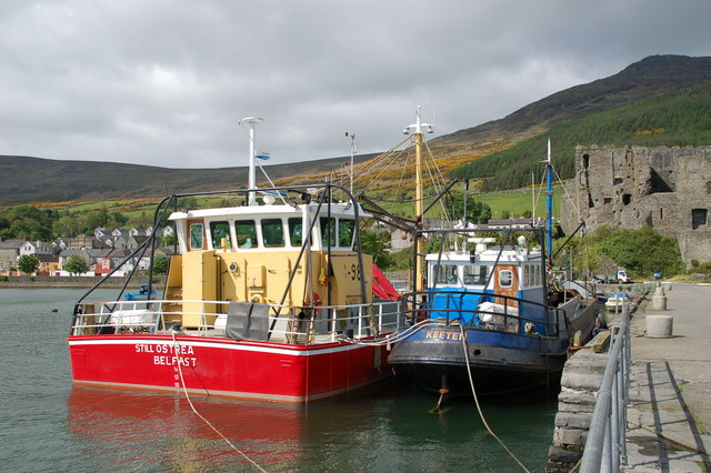 Mussel dredger B 98 Still Ostrea and WD 213 Keeten at Carlingford harbour. There are mussel beds in Carlingford Lough and there is mussel harvesting on a significant scale. Two of the boats involved are seen at Carlingford harbour. King John's castle overlooks the harbour and lough. This quay is in J1811 - the rest of the harbour is in J1911.